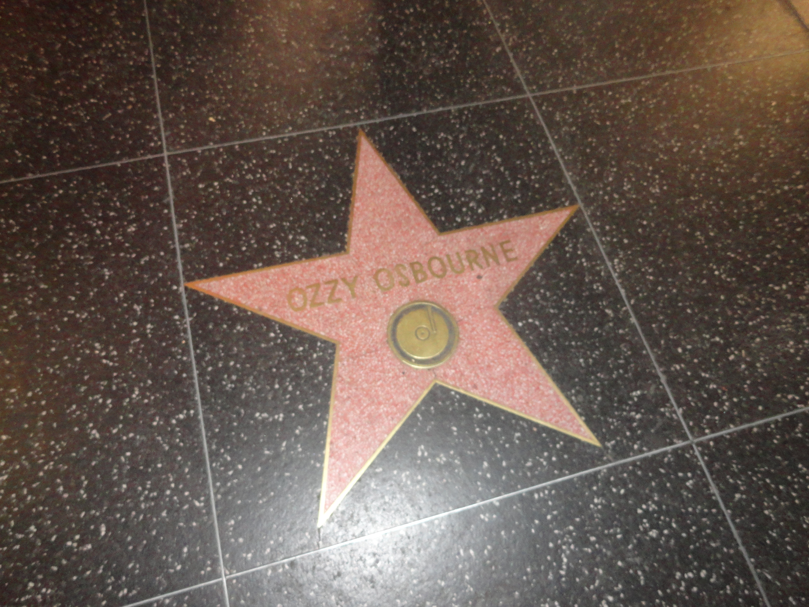 Ozzy Osbourne star Hollywood Please credit to if you use it.